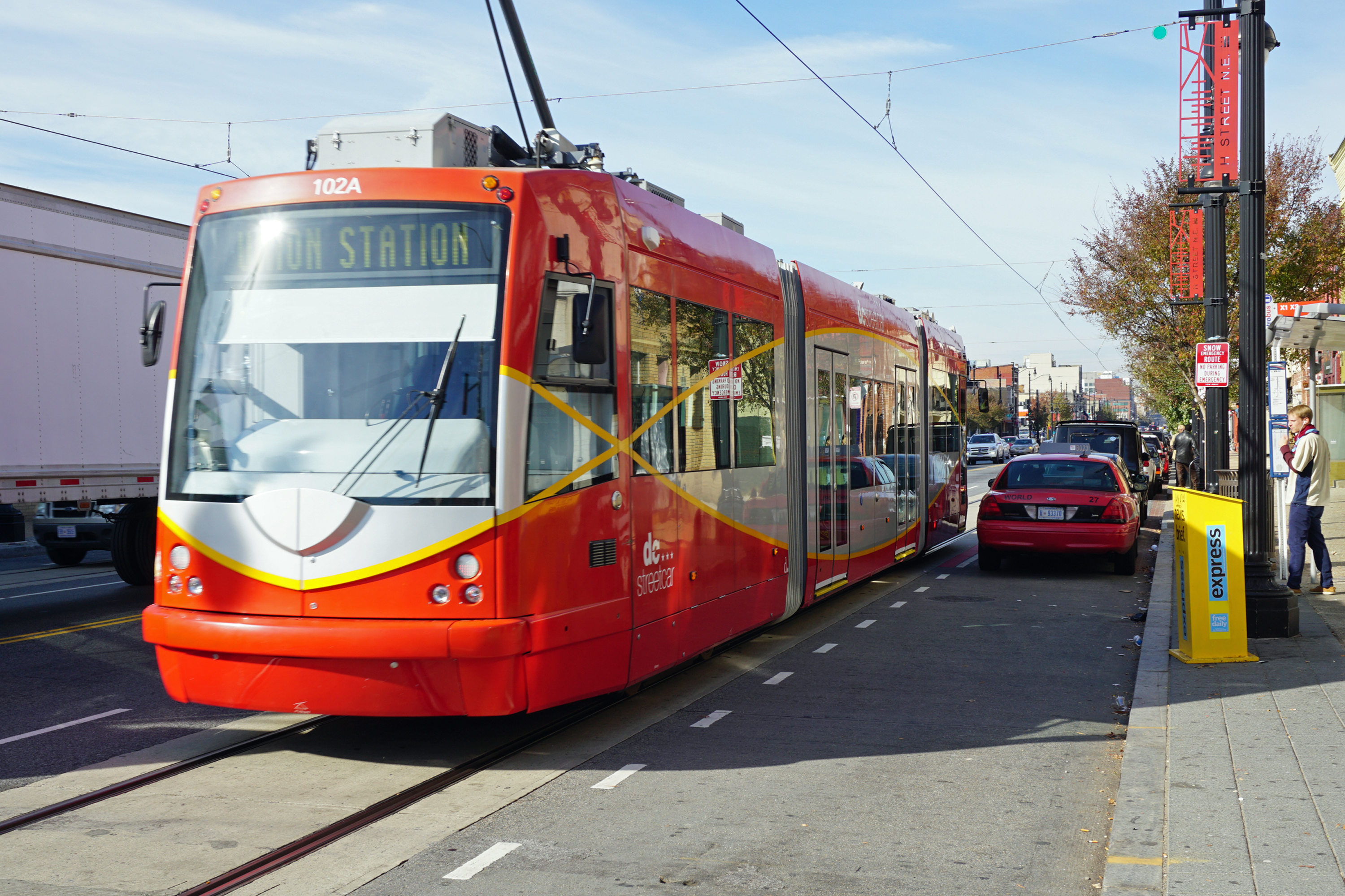 DC Streetcar on H Street NE, Washington, D.C. The trams are running as part of a testing phase.